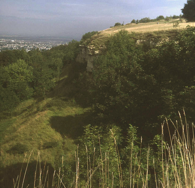 Cliff at Leckhampton Hill Looking north-east across the old quarry face to Cheltenham.